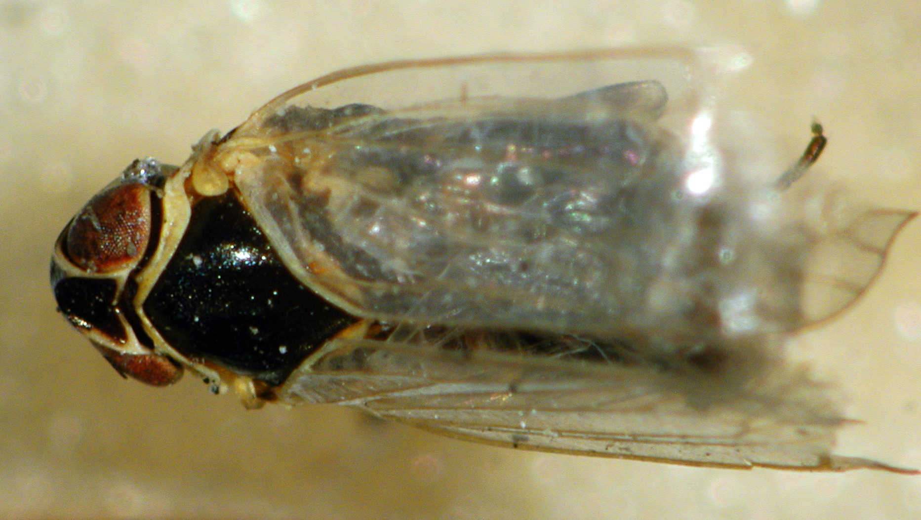 Hyalesthes obsoletus; Signoret, 1865